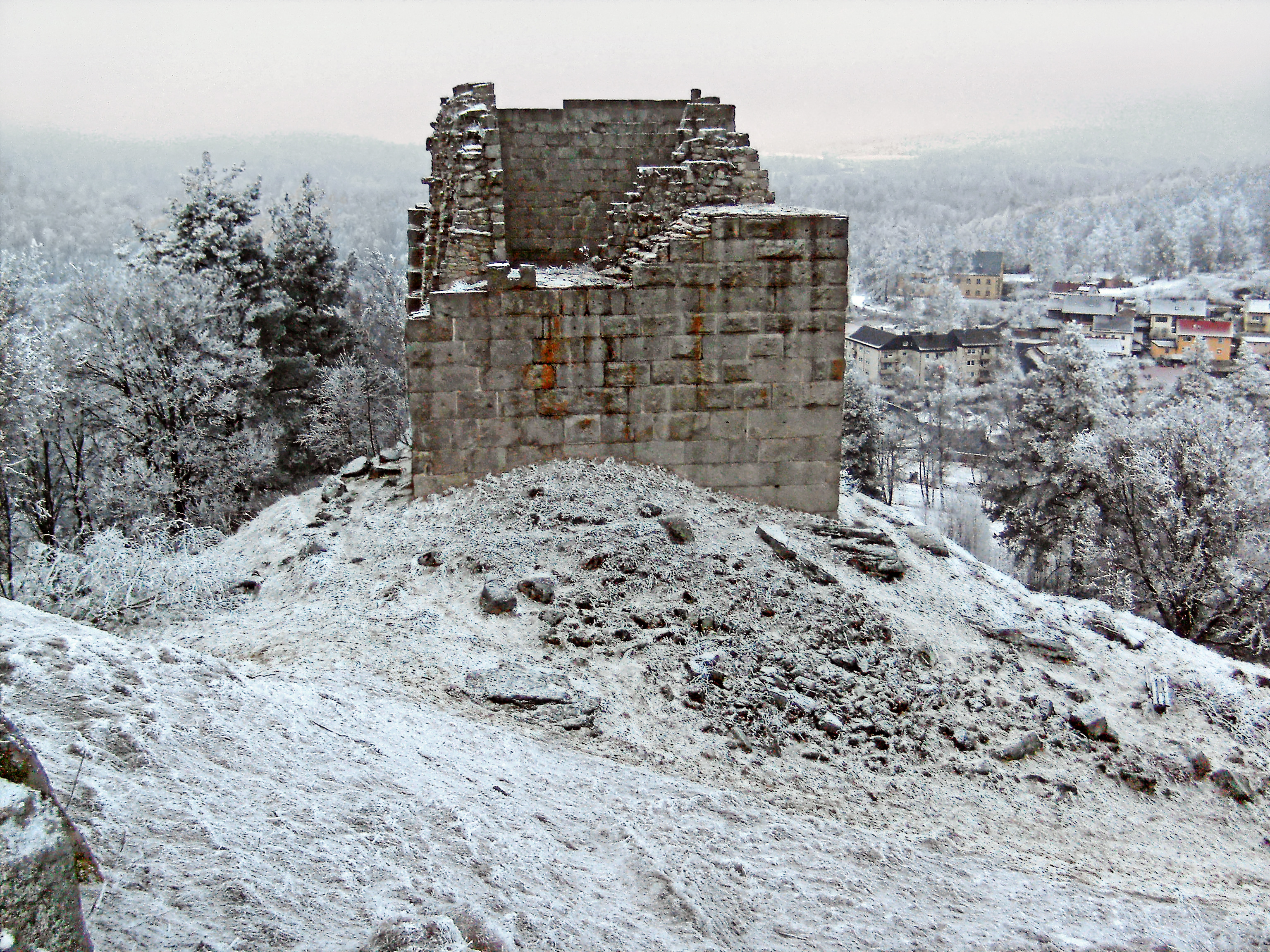 Flossenbürg Castle, outer defense tower seen from the castle wall.